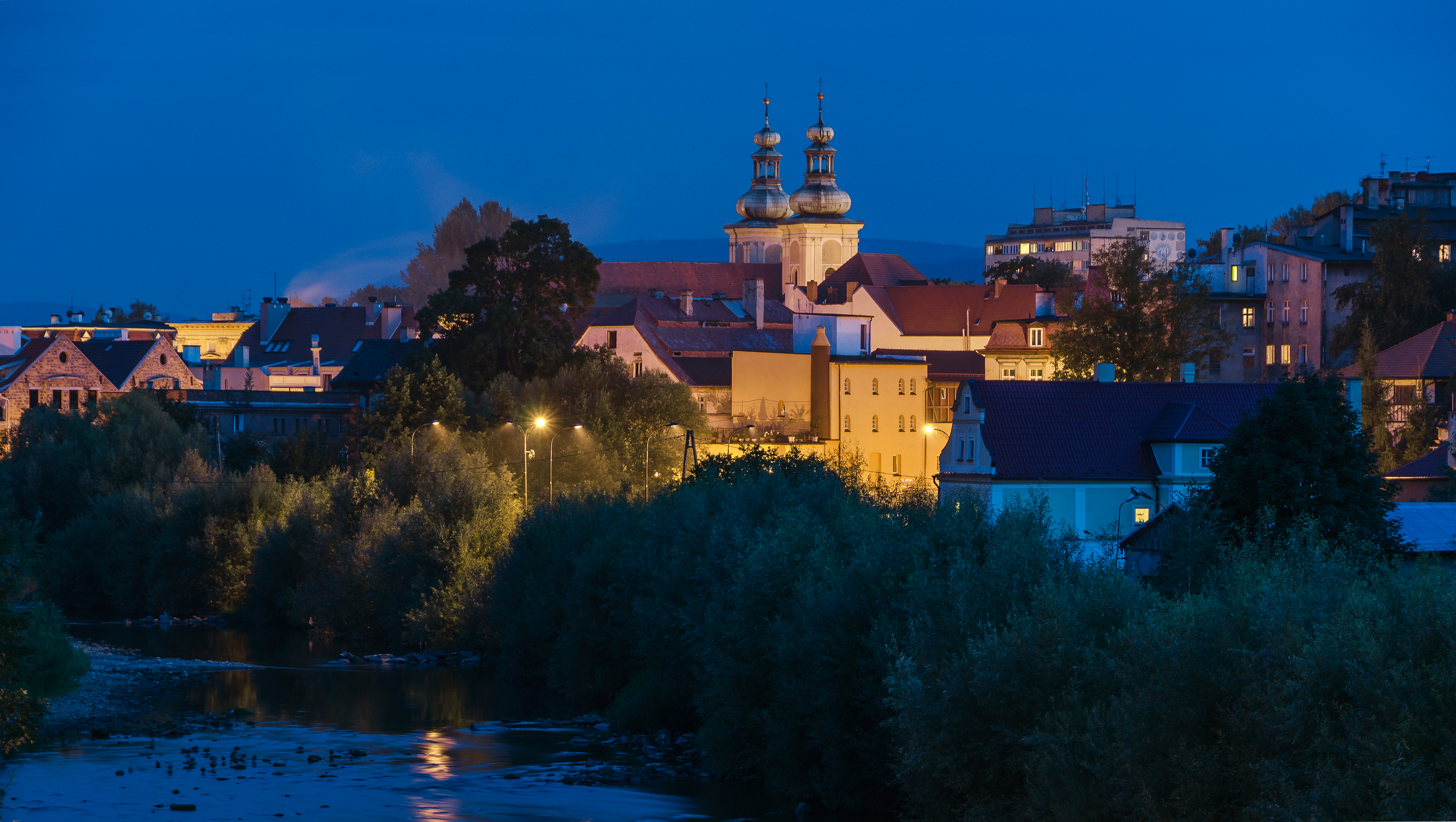 Historic centre of Kłodzko Ta fotografia przedstawia zabytek wpisany do rejestru zabytków pod numerem ID 592676